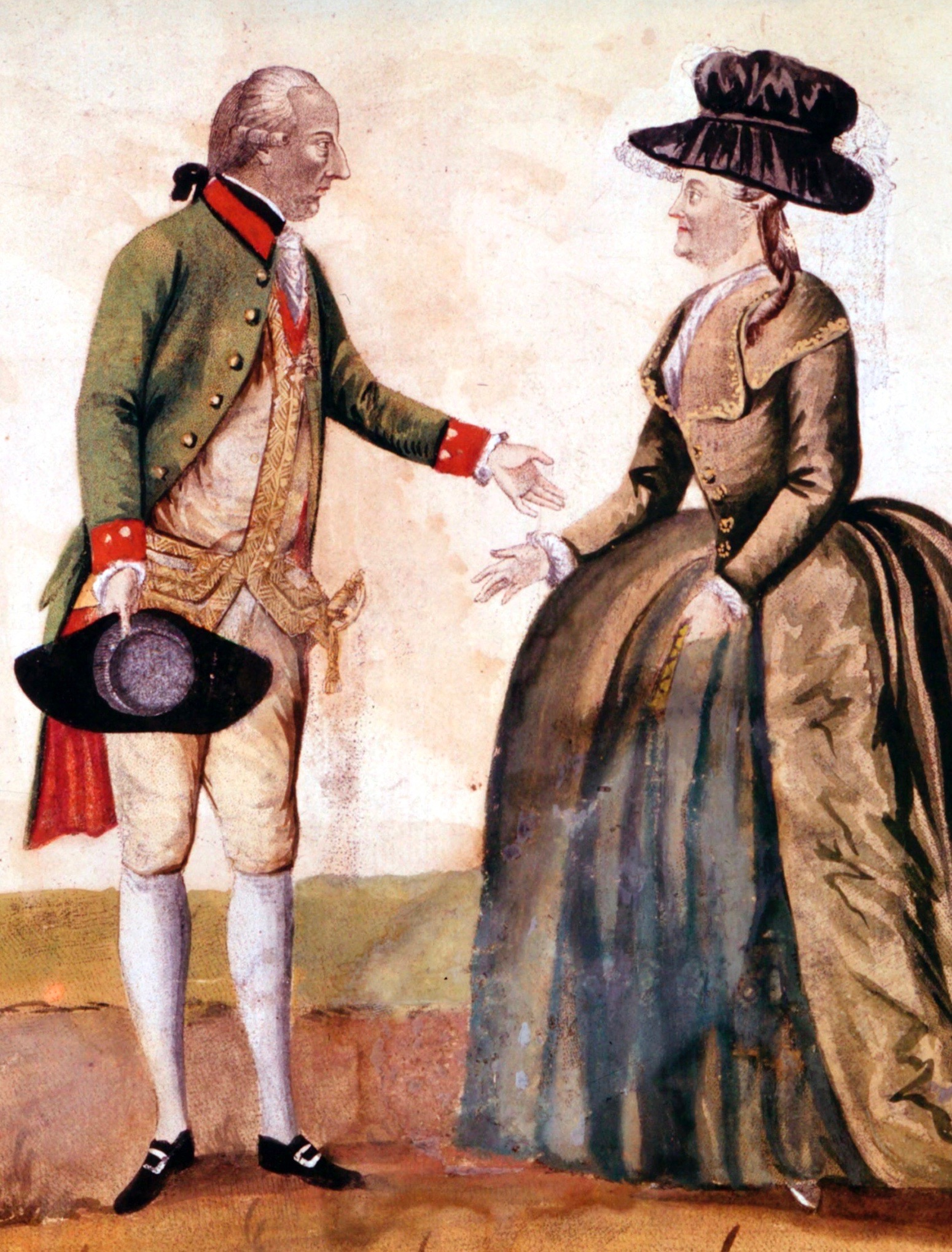 Hieronymus Löschenkohl (1753–1807): Begegnung Kaiser Josephs II. und Kaiserin Katharinas II. bei Kodak am Dnepr, 18. Mai 1787 (Detail).